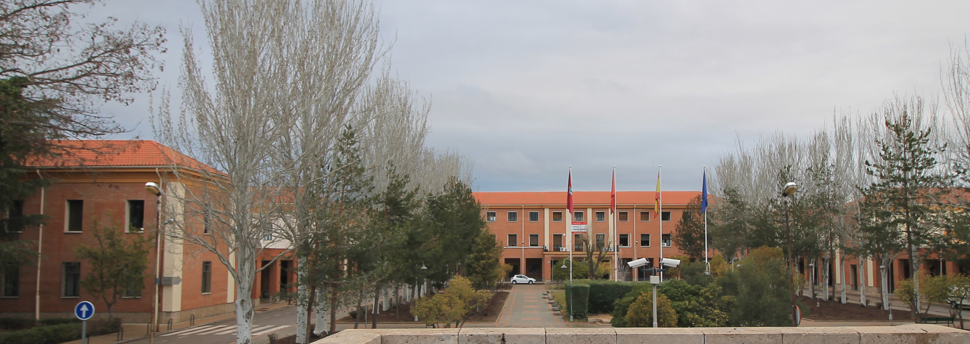 Façade of Instituto Virgen de la Paloma (a secondary school) in Madrid (Spain).